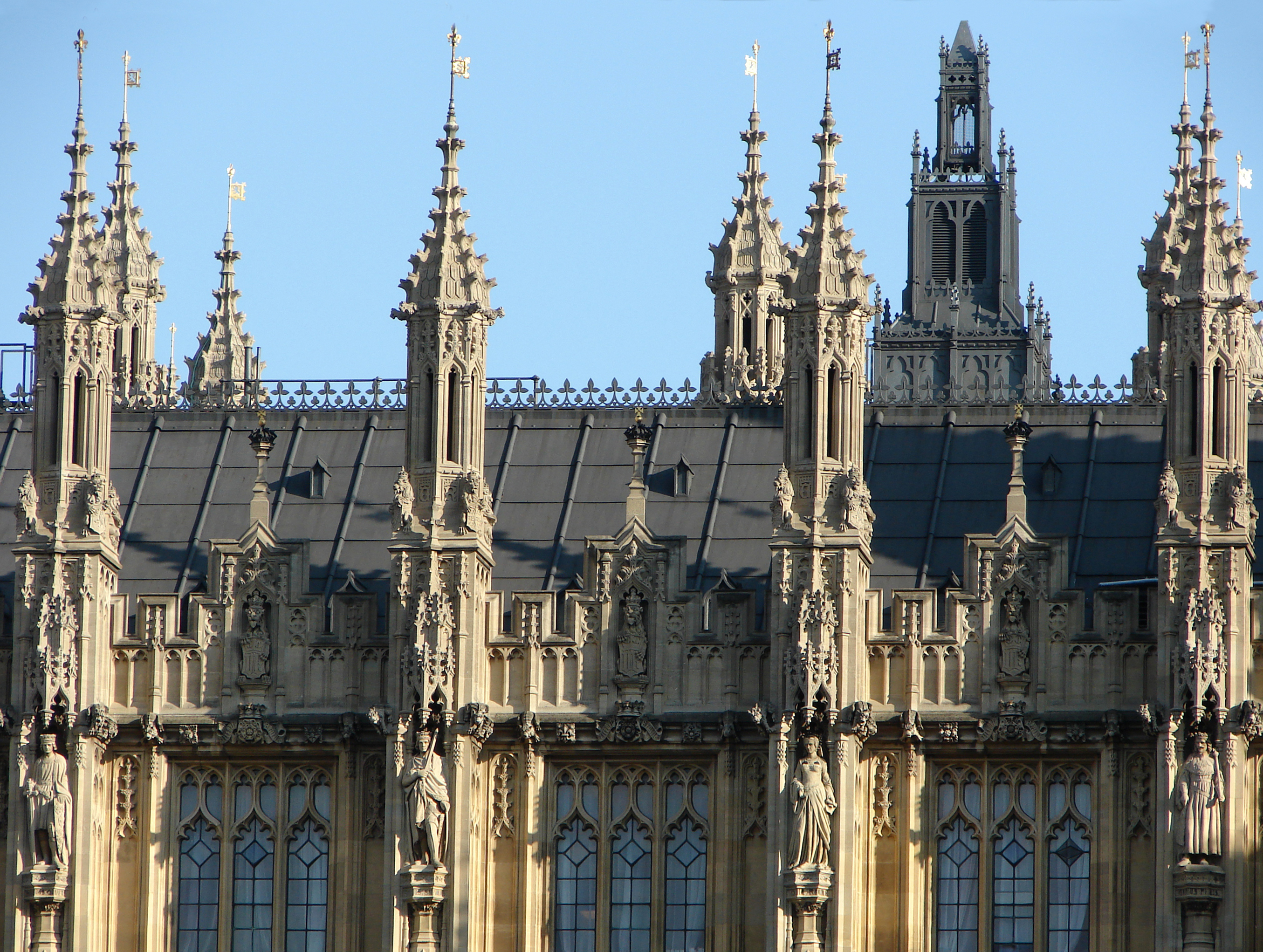 Perpendicular Gothic architecture, Palace of Westminster.